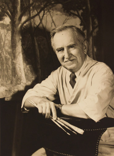 Frank Nuderscher was an illustrator, impressionist painter, and muralist from St. Louis, MO.